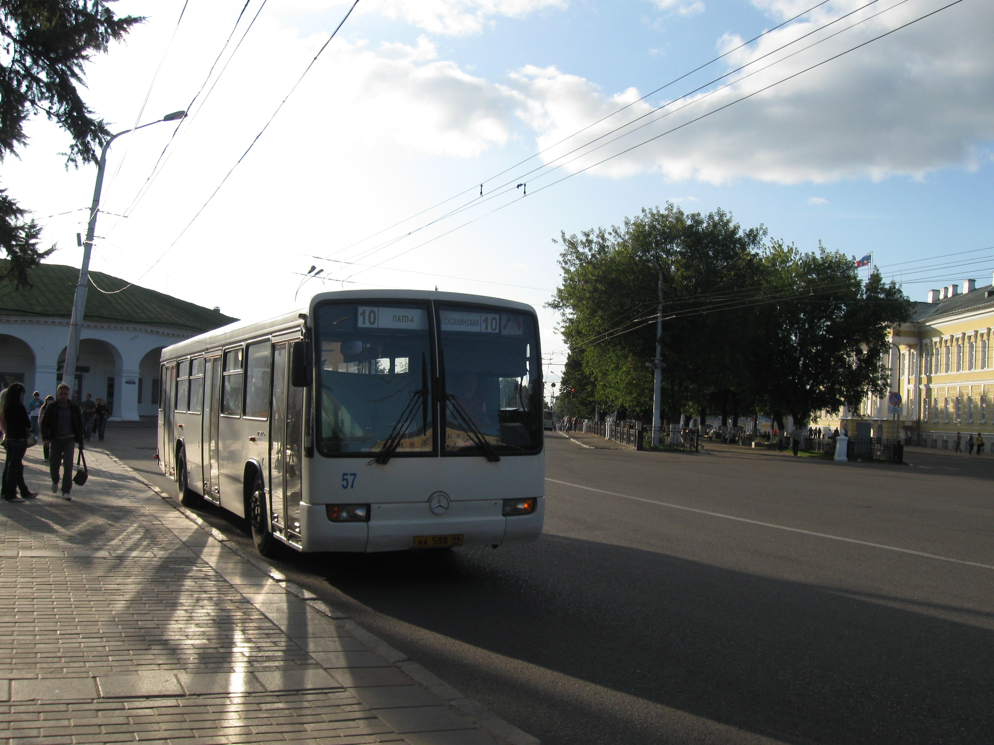 Mercedes-Benz O345 bus in Kostroma, Russia.